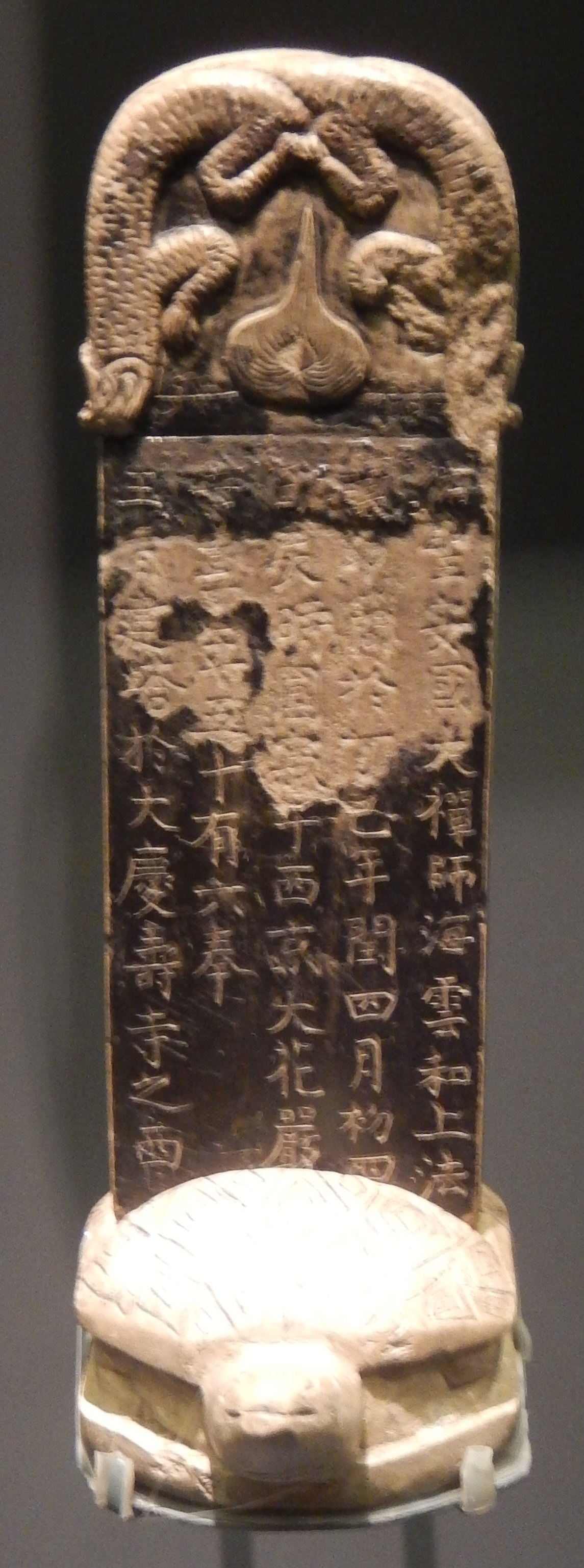 Stone memorial tablet for the eminent Buddhist monk Hai Yun (1202–1257). Yuan dynasty (1271–1368). Held at the Capital Museum, Beijing. The inscription reads "祐聖安國大禪師海雲和上，法諱印簡，於丁巳年閏四月初四日辰時圓寂于西京大花嚴寺，享年五十有六。奉王旨建塔於大慶壽寺之西。" ('Protecting Sage Pacifying the Country' Great Chan Master, the monk Haiyun, whose religious name was Yinjiian, achieved nirvana at the Dahuayan Temple in the Western Capital at the hour of the dragon on the fourth day of the fourth intercalary month; he lived for fifty-six years. On command of the prince, a pagoda was built to the west of the Daqingshou Temple.).